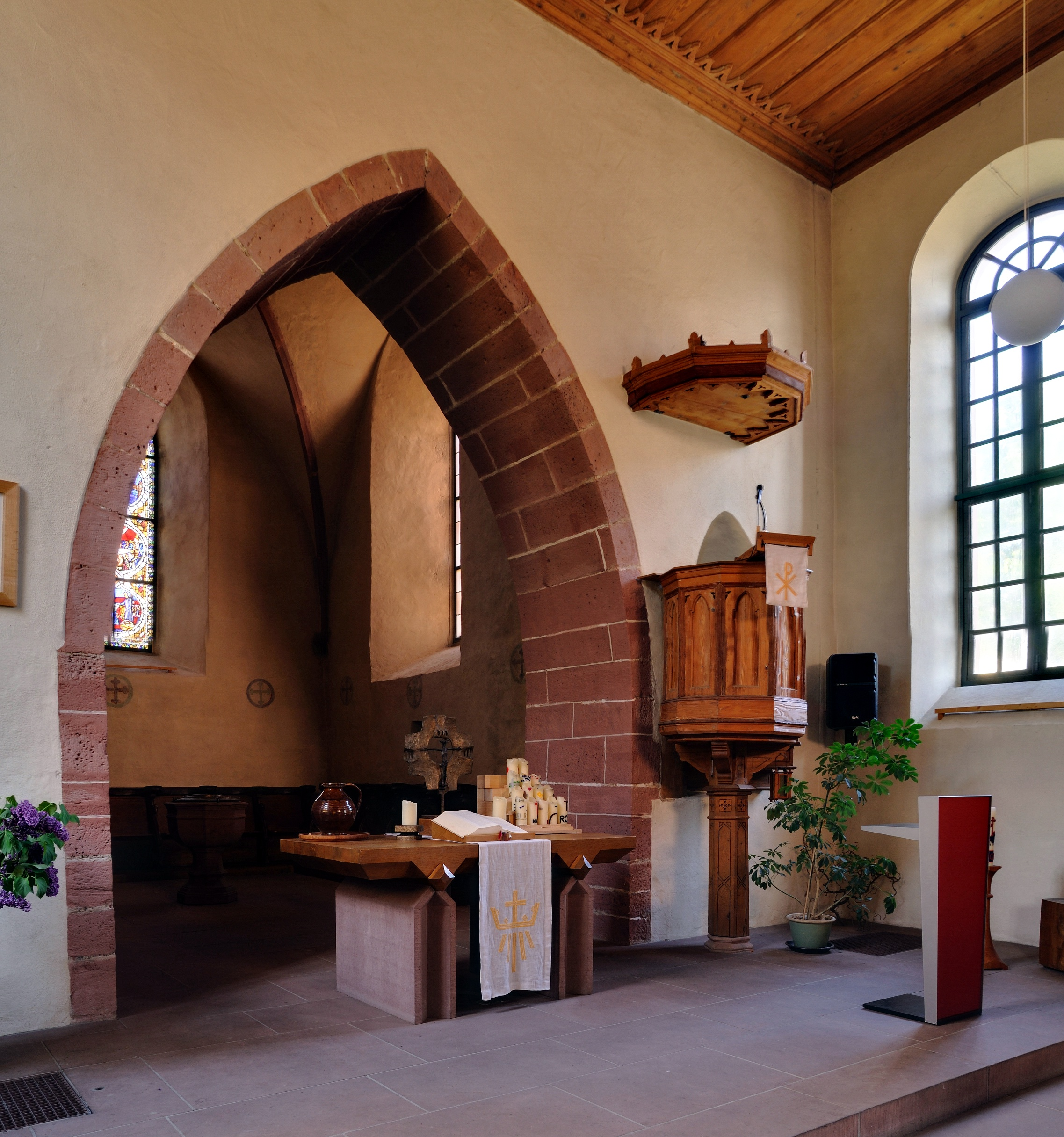 Egringen: Protestant Church